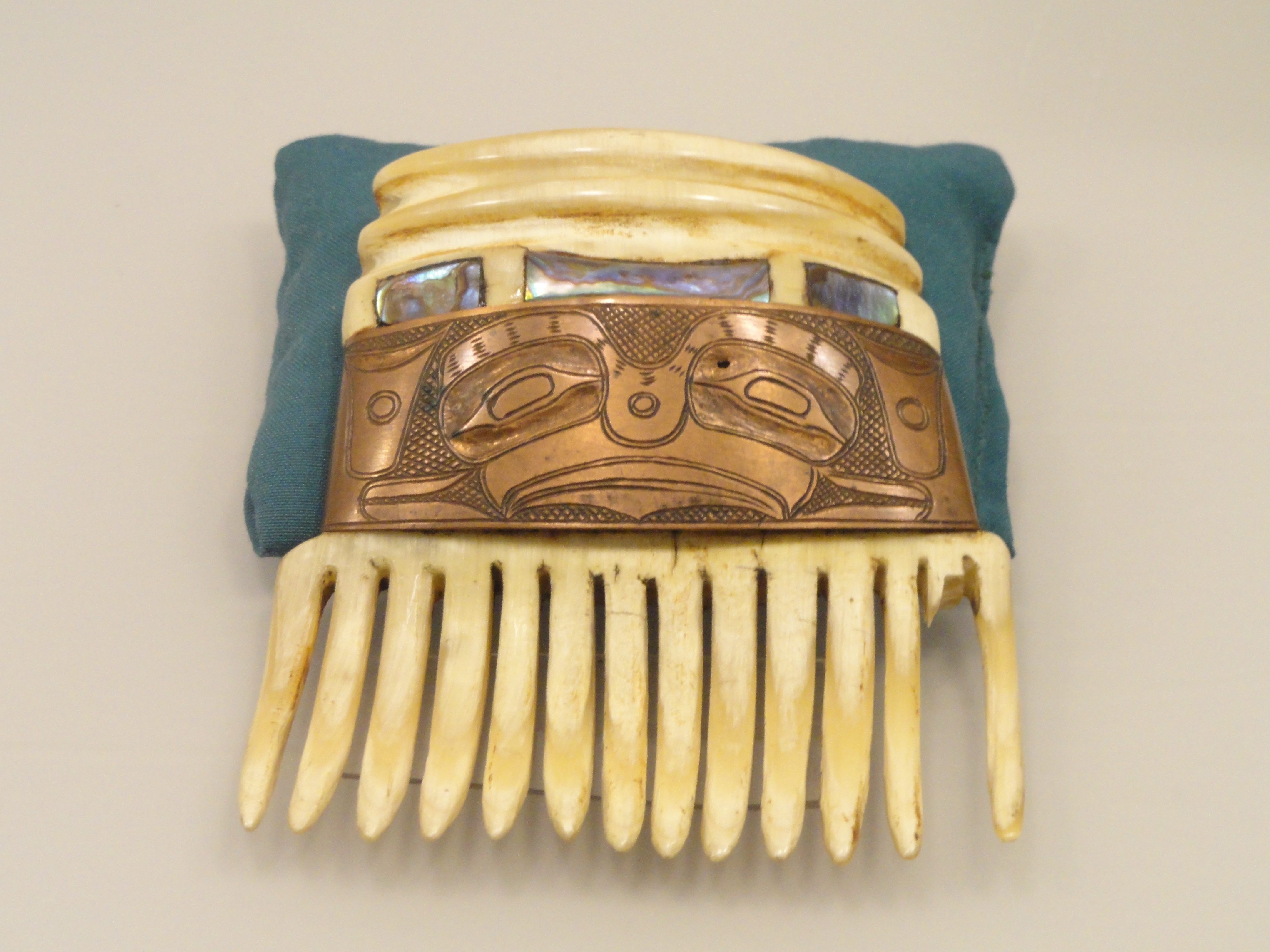 Comb, Haida or Tlingit, carved ivory with copper and shell. Exhibit from the Native American Collection, Peabody Museum, Harvard University, Cambridge, Massachusetts, USA. Photography was permitted without restriction; exhibit is old enough so that it is in the public domain.